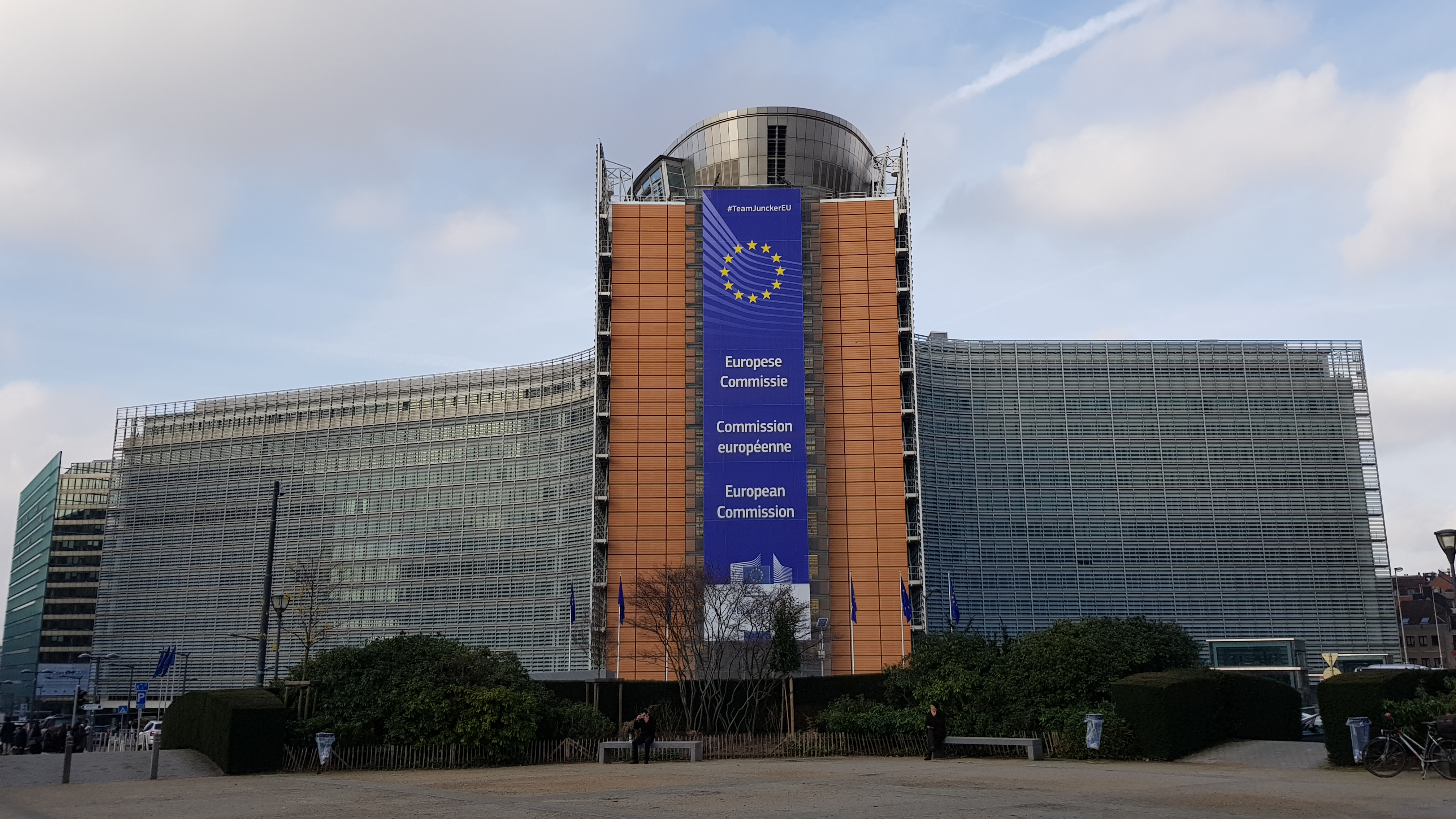 Berlaymont building, Brussels, Belgium